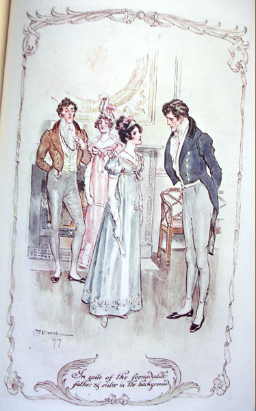 Persuasion, ch 20: Anne and Captain Wentworth are speaking to each other in spite of the formidable father and sister in the background.